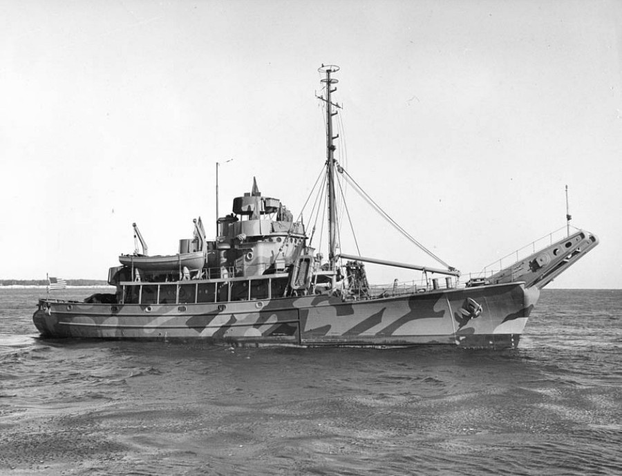 Passaic (AN-87) underway, date and location unknown. Note dazzle camouflage scheme, a variant of measure 31 design 20L. US Navy photo from "All Hands" magazine, April 1952